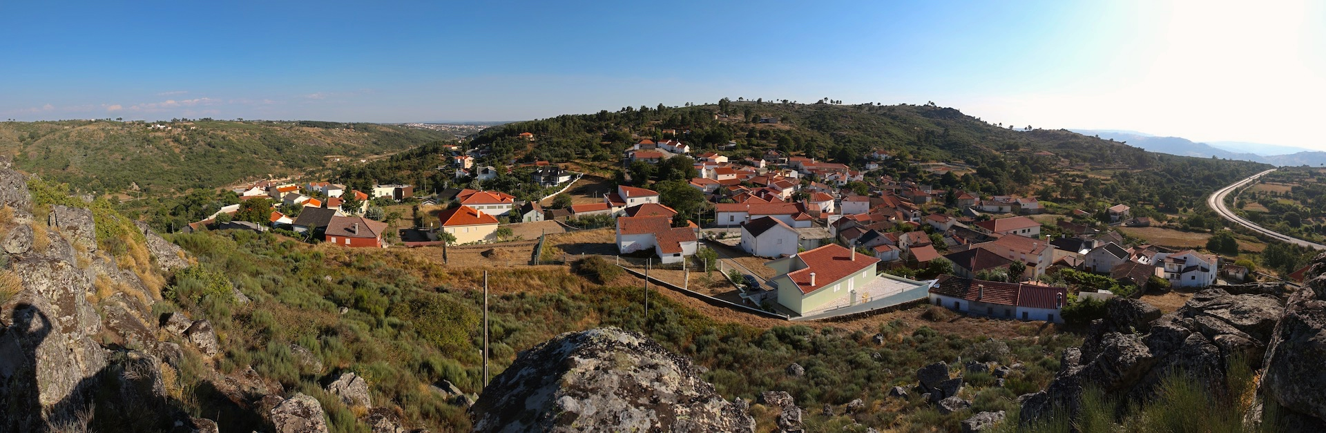 Panoramic view of Alvendre village in Portugal (District of Guarda)